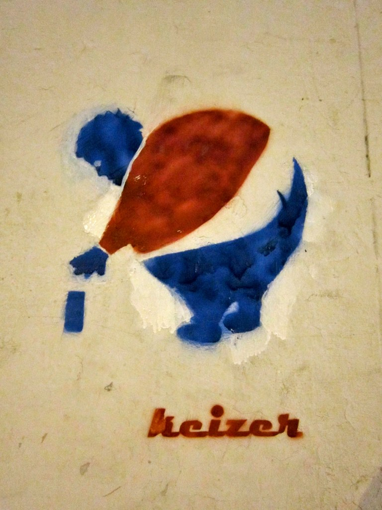 Graffiti stencil with Pepsi logo. Anti-consumerism.